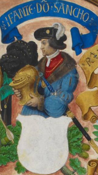 Sancho (1161-1226), Count of Cerdanya; son of Count Raymond Berengar IV of Barcelona, in a 16th-century miniature.